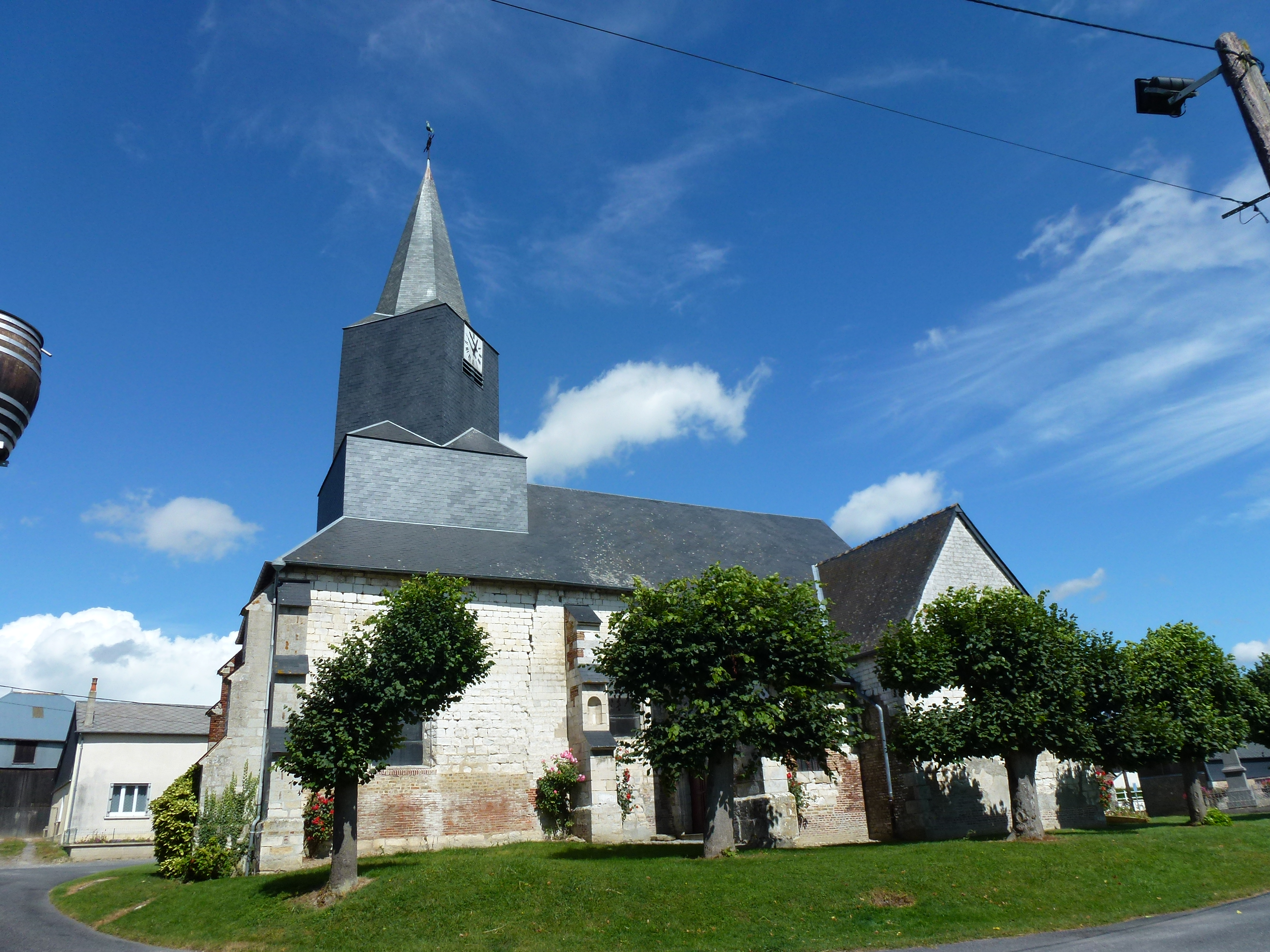 Hauteville (Ardennes) église